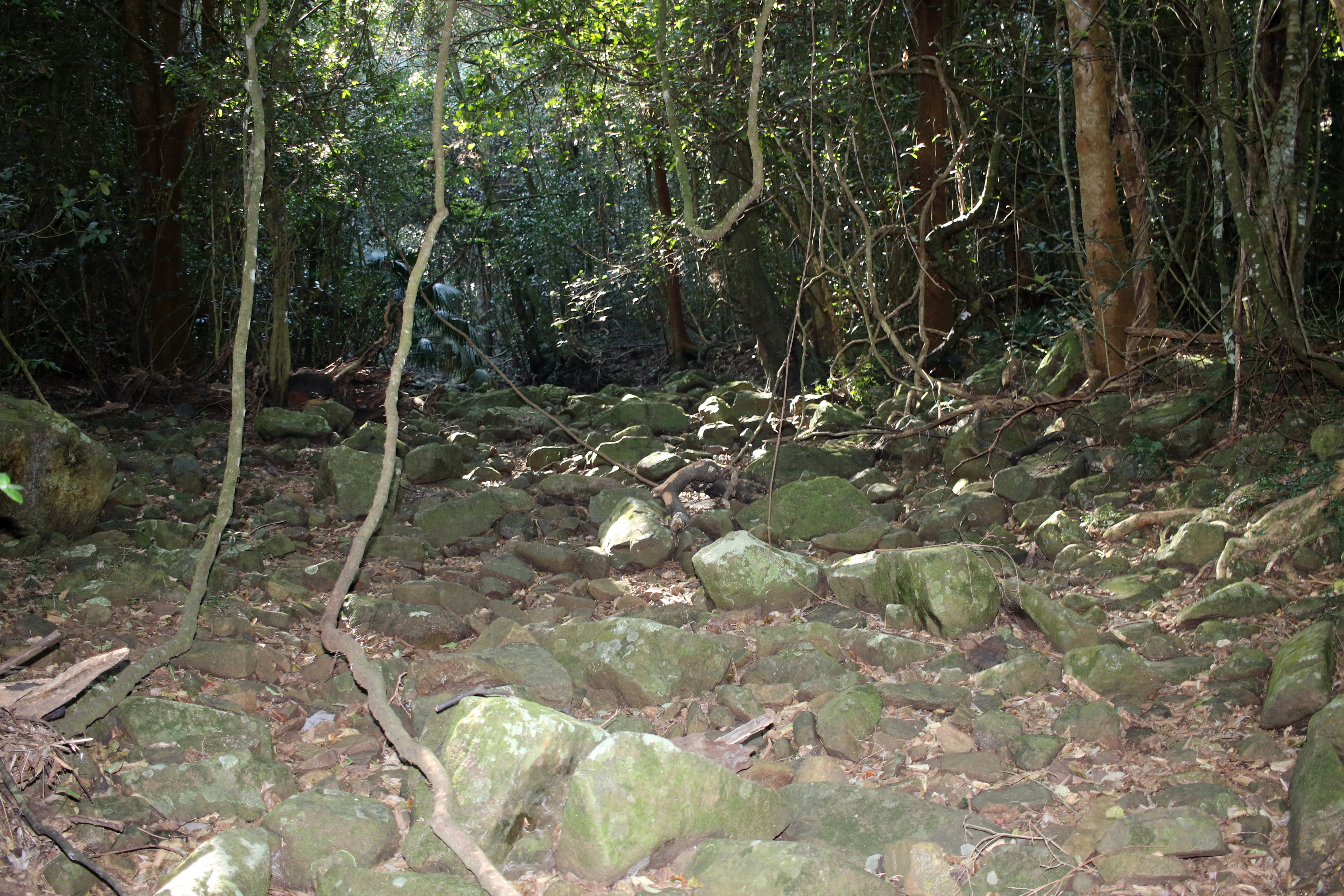 tributary of Currowar creek. The NSW 1:250,00 geological map suggests these rocks are Milton Monzonite.